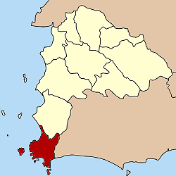 Map of Chonburi province, Thailand, highlighting Amphoe Sattahip (geocode 2009)